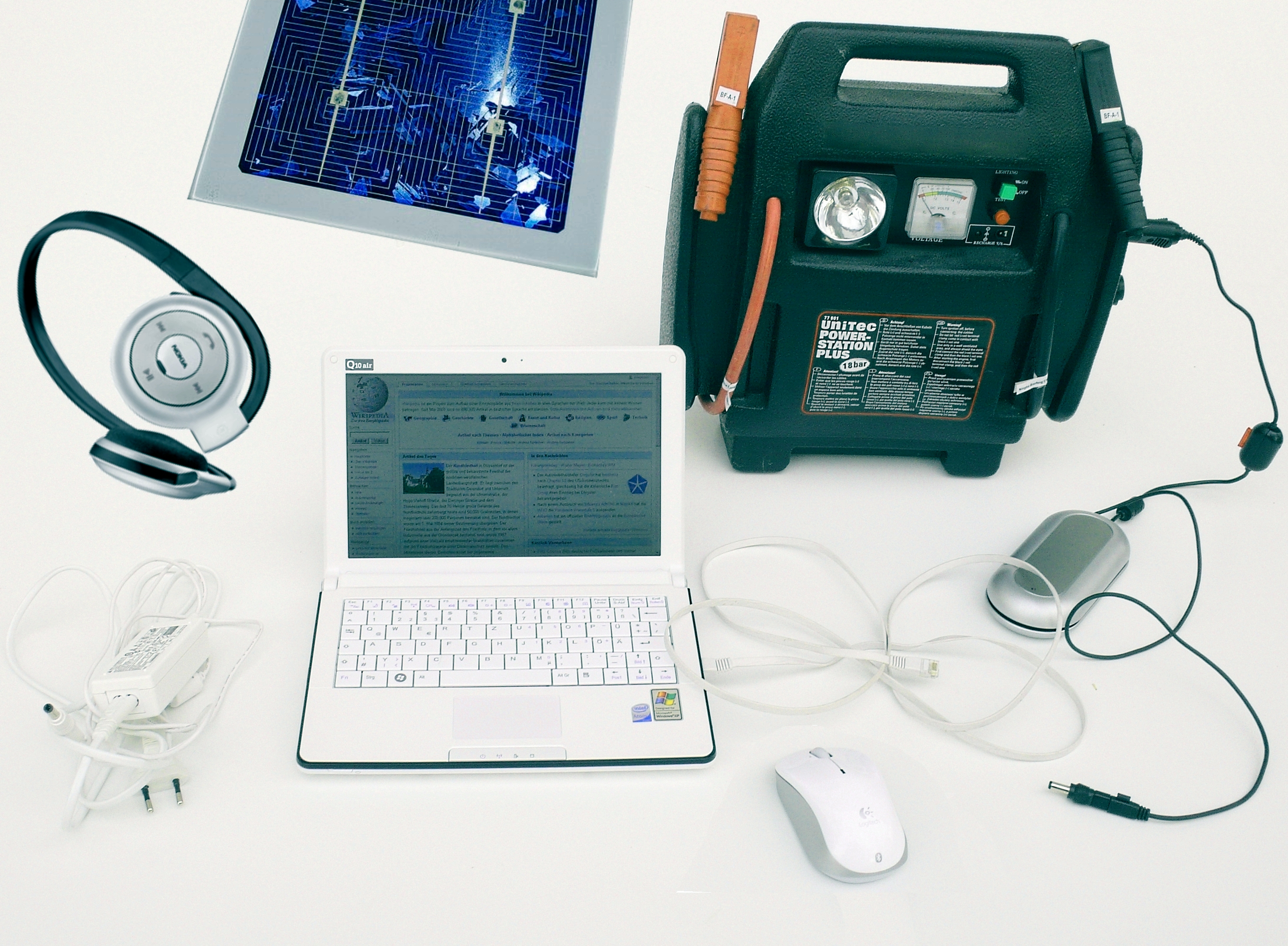 Elitegroup Netbook, Bluetooth Headset, 12-volt solar cell, 12 volt power station (17 Ah Battery), DC Converter Car Charger (12 to 20 volts), Ethernet white ribbon cable, Bluetooth Laser Mouse, 110-230 volt power supply with Euro plug Konfiguration Microsoft Windows XP SP3 Taskleiste auf Klassischer Ansicht Taskleiste auf den rechten Bildschirmrand verschoben Am Netbook Desktop lästige Sprechblasen (Balloon Tips) deaktiviert [1] Maus mit USB-Nano Empfänger; (die mittlere) Scrollradtaste mit der Tastendruckzuweisung F11 belegt (Ermöglicht den vereinfachten Wechsel zur Vollbilddarstellung per Mausklick) Firefox als Browser Firefox Add. Sidebar Autohide installiert (Öffnet/Schließt im Firefox Vollbildmodus am linken Seitenrand Lesezeichen) Energiesparmodus S4 Aktiviert Start, Ausführen: Powercfg -H On System Energieoptionen, Erweitert, beim Schließen des Netbooks, in den Ruhezustand wechseln (S4 Suspend to Ram Modus). Systemsteuerung, System, Erweitert, Systemleistung, "Für Optimale Leistung", Durchsichtigen Hintergrund für Symbolunterschriften auf Ja. XP Start- beschleunigt: Start, Ausführen: Msconfig bestätigen, BOOT.INI dort /NOGUIBOOT bestätigen.